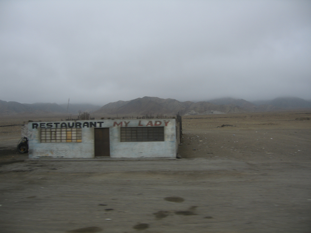 An abandoned restaurant in the middle of the desert between Lima and Trujillo, Peru. The Andes Mountains are in the background (mostly obscured by fog).